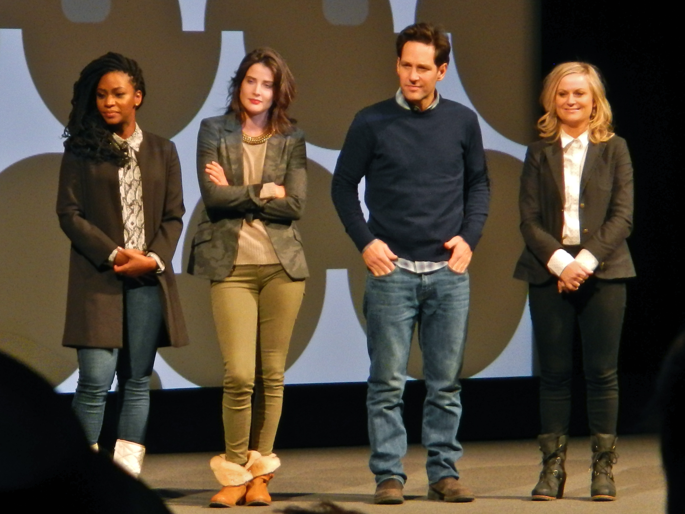 "They Came Together" at Sundance 2014